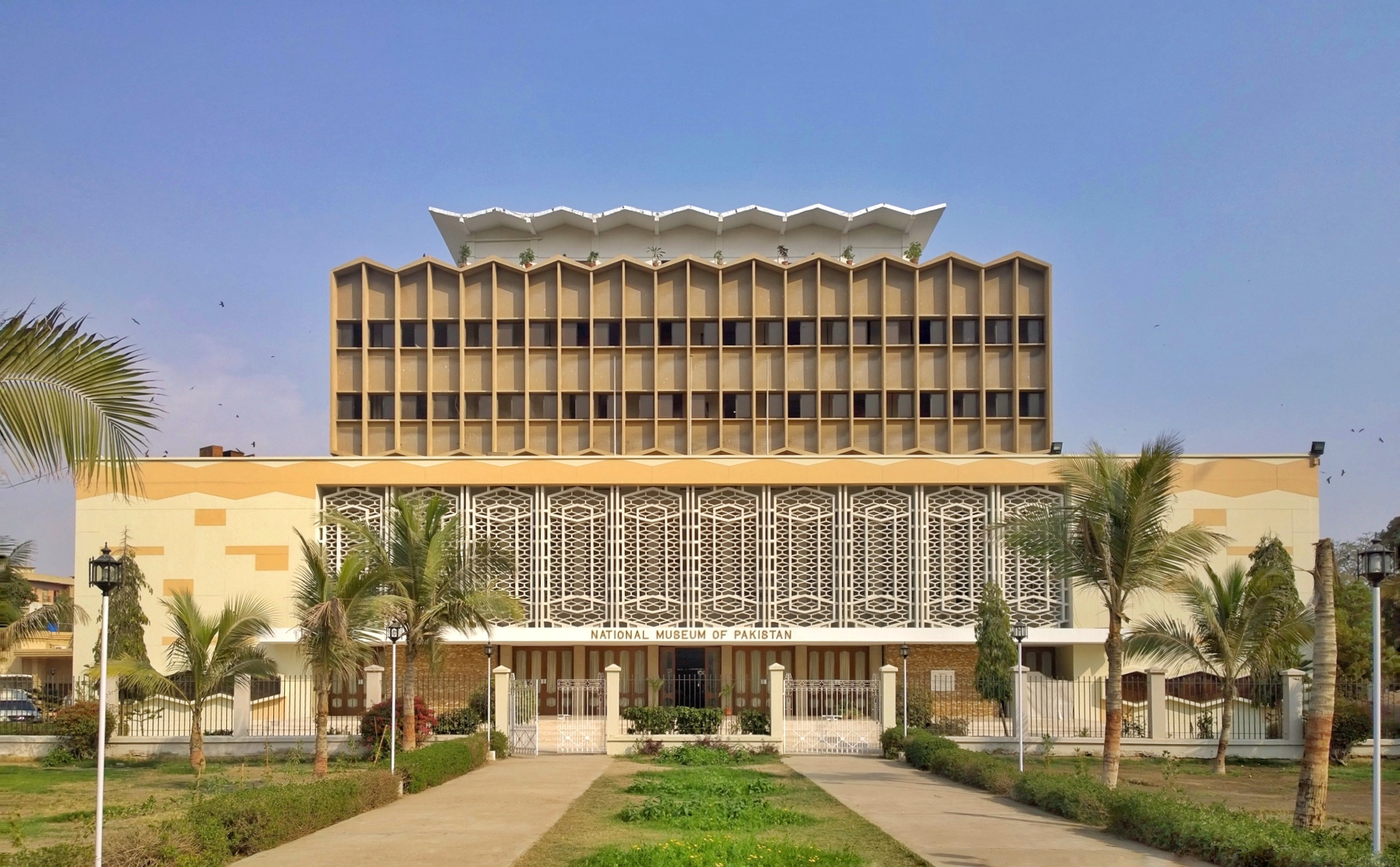 A great view of Museum in sunny day.